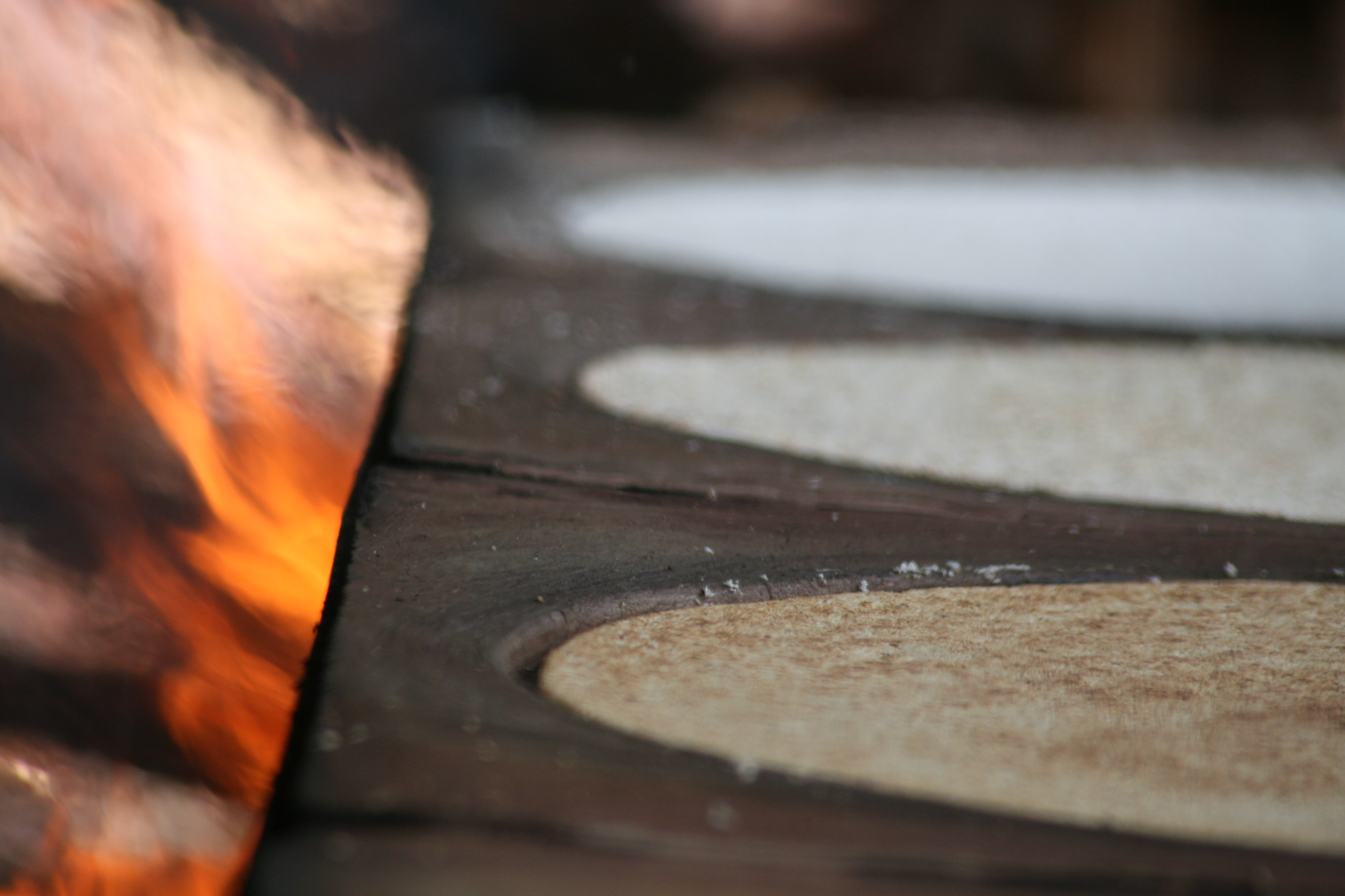 Cassava flatbread from Casabe Gourmet company in Venezuela